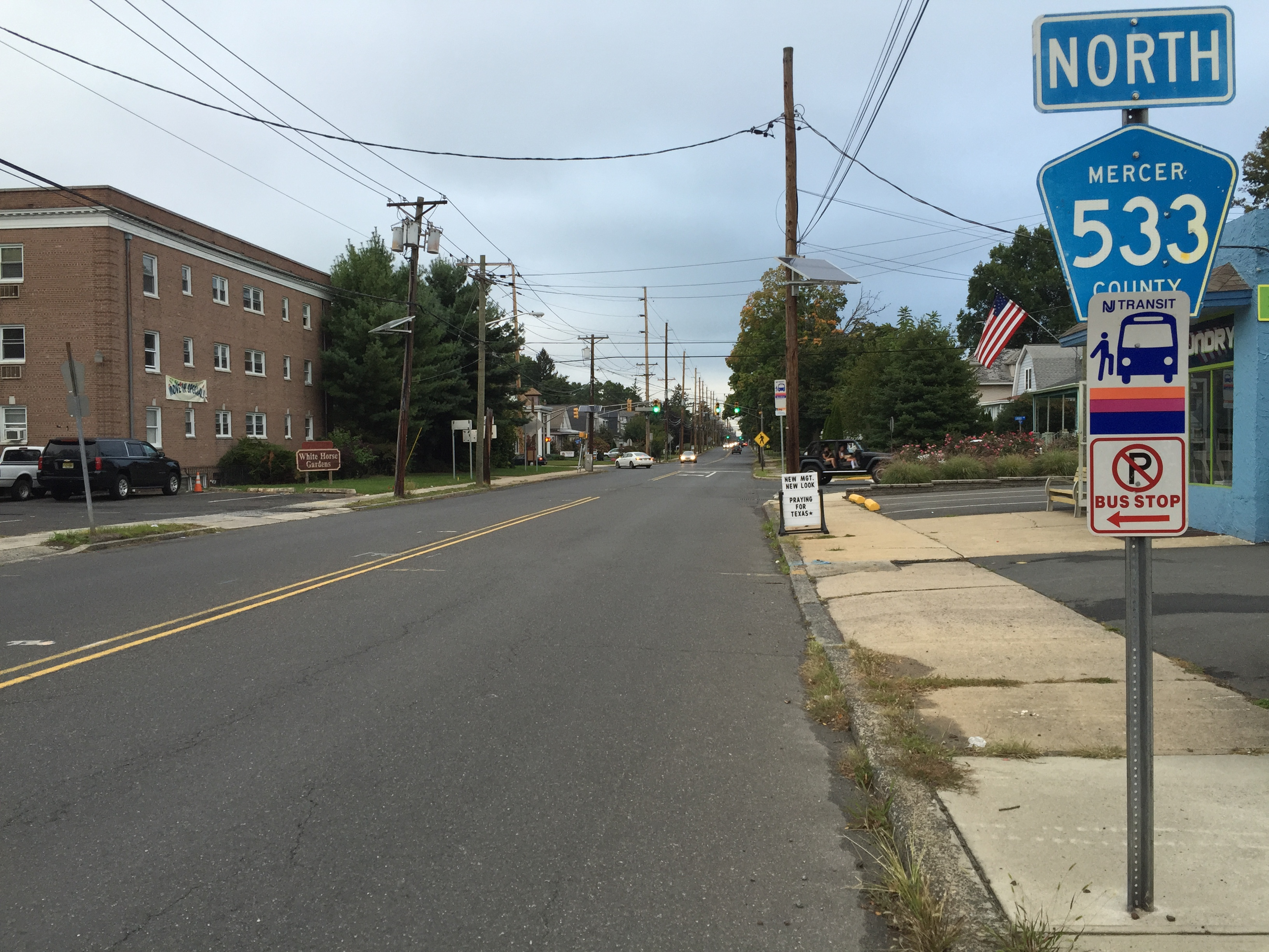 View north along White Horse Avenue (Mercer County Route 533) at Locust Avenue in Hamilton Township, Mercer County, New Jersey